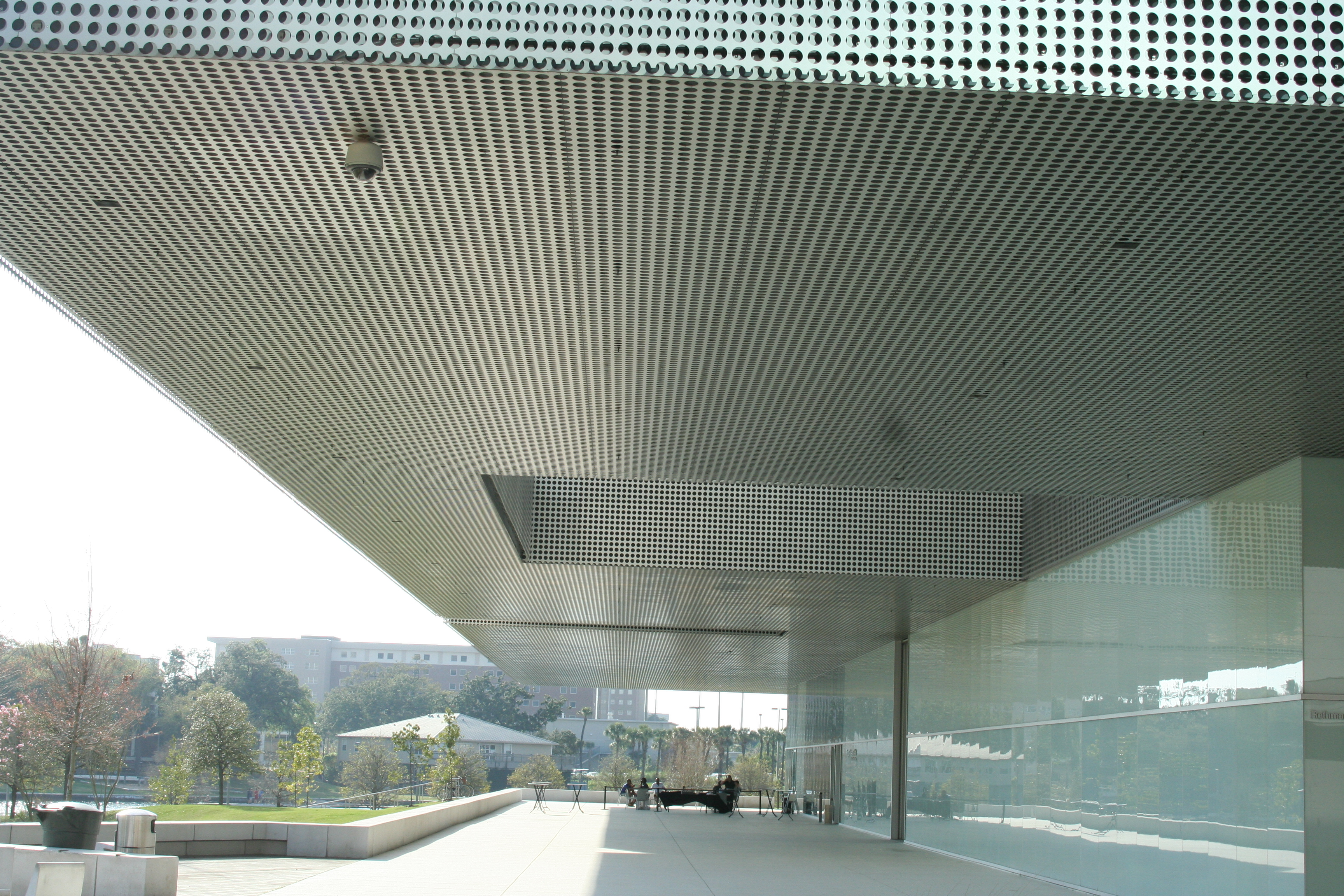 Tampa Art Museum entrance 2012